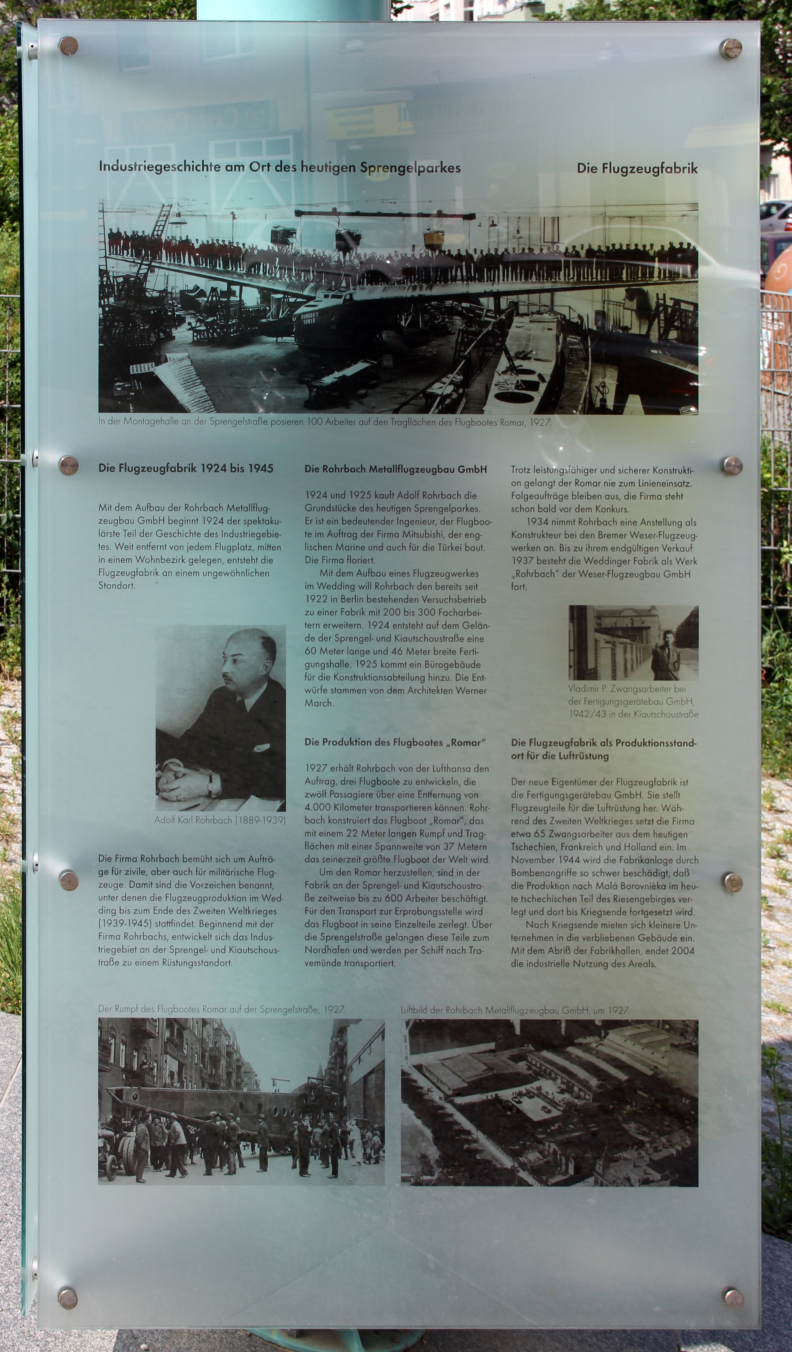 Memorial plaque, Rohrbach Metallflugzeugbau, Sprengelstraße 29, Berlin-Wedding, Germany